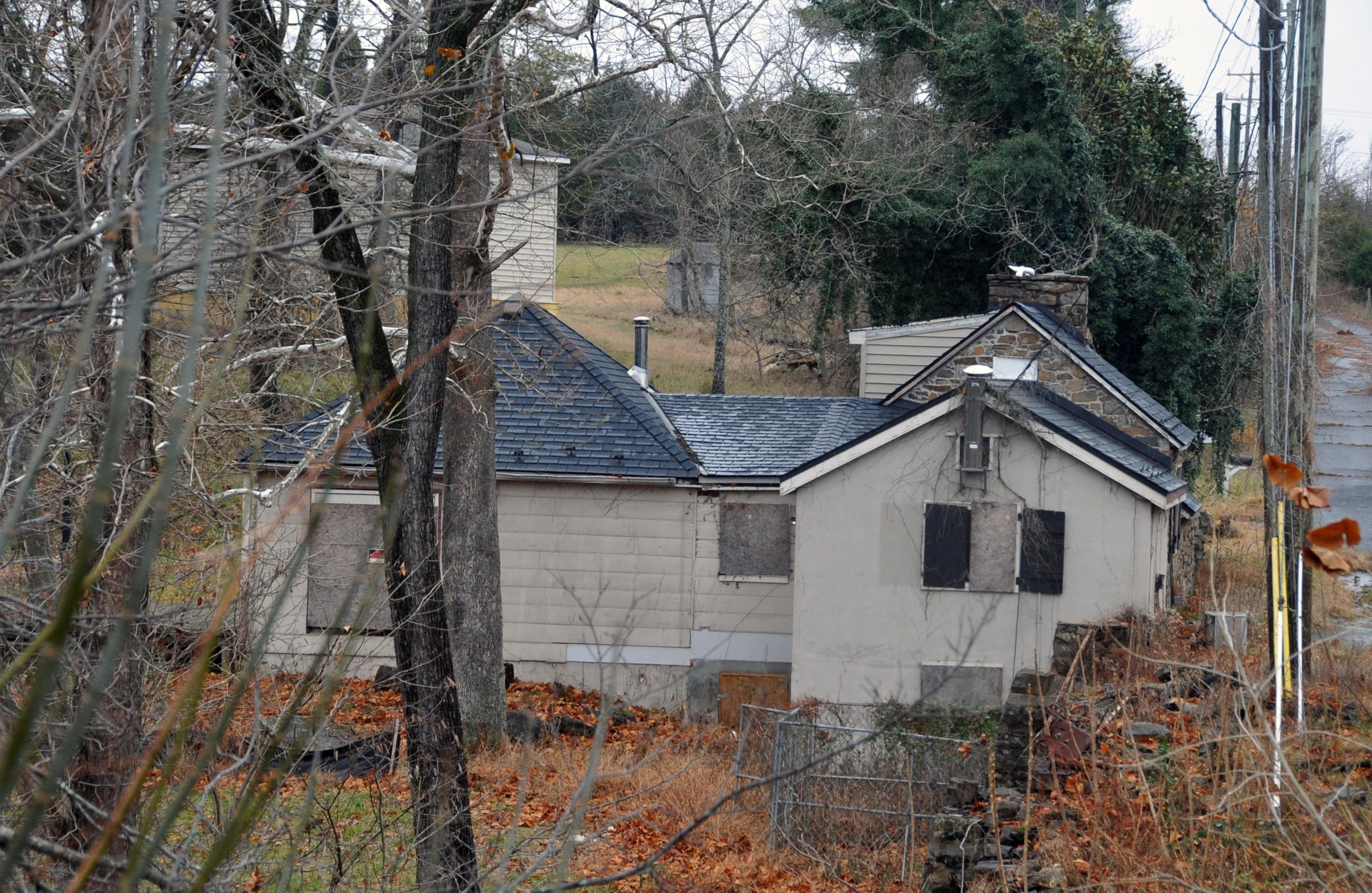 BRIDGE WAS BUILT FOR THE LEESBURG TURNPIKE COMPANY IN 1820 BUT COLLAPSED DURING HURRICANE AGNES IN 1972. ONLY THE BRIDGE ABUTMENTS REMAIN AN D CAN BE SEEN IN THE LOWER RIGHT CORNER OF THE PICTURE. THE TOLL HOUSE IS NOW BOARDED UP BUT WAS USED AS A PRIVATE RESIDENCE